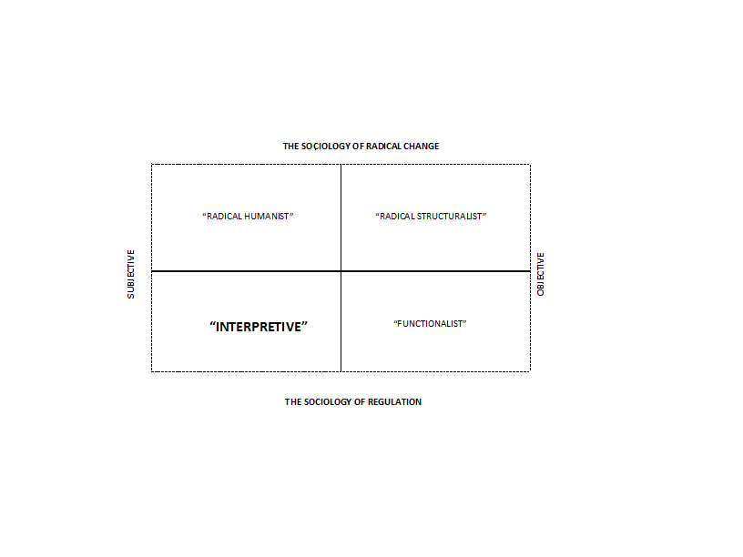 Four paradigms for the analysis of social theory